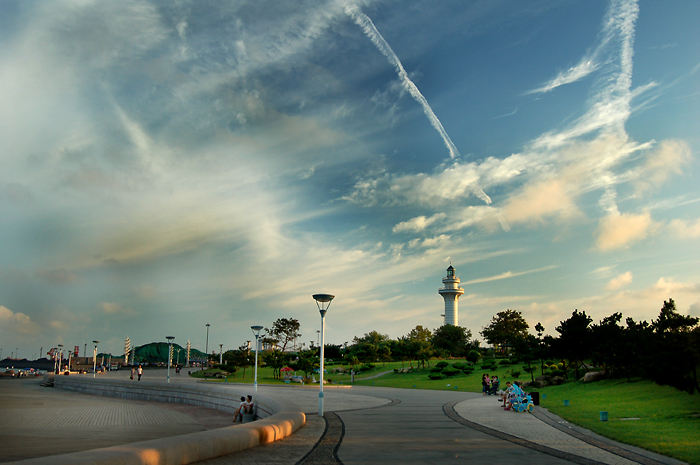 dengtaguangchang (dengta square) is a lighthouse square in rizhao along dengta beach